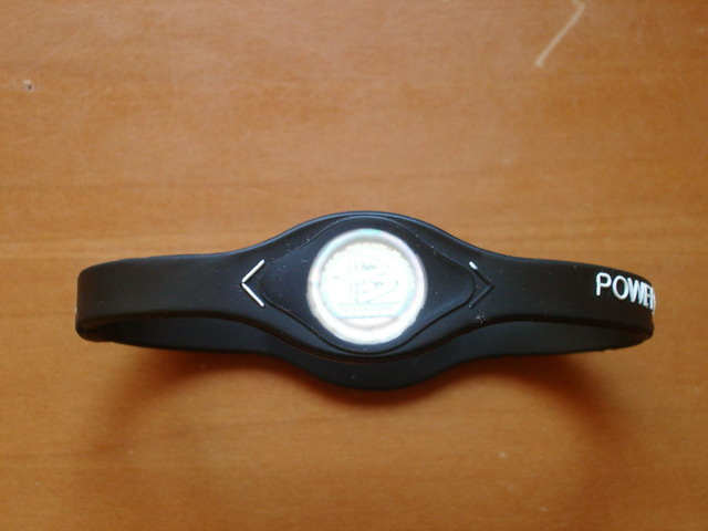 Bracelet created by Power Balance used by many people and famous sportsmen. This photo has been taken for me in order to improve a Wikinews article. No copyright inflicting intention at all.